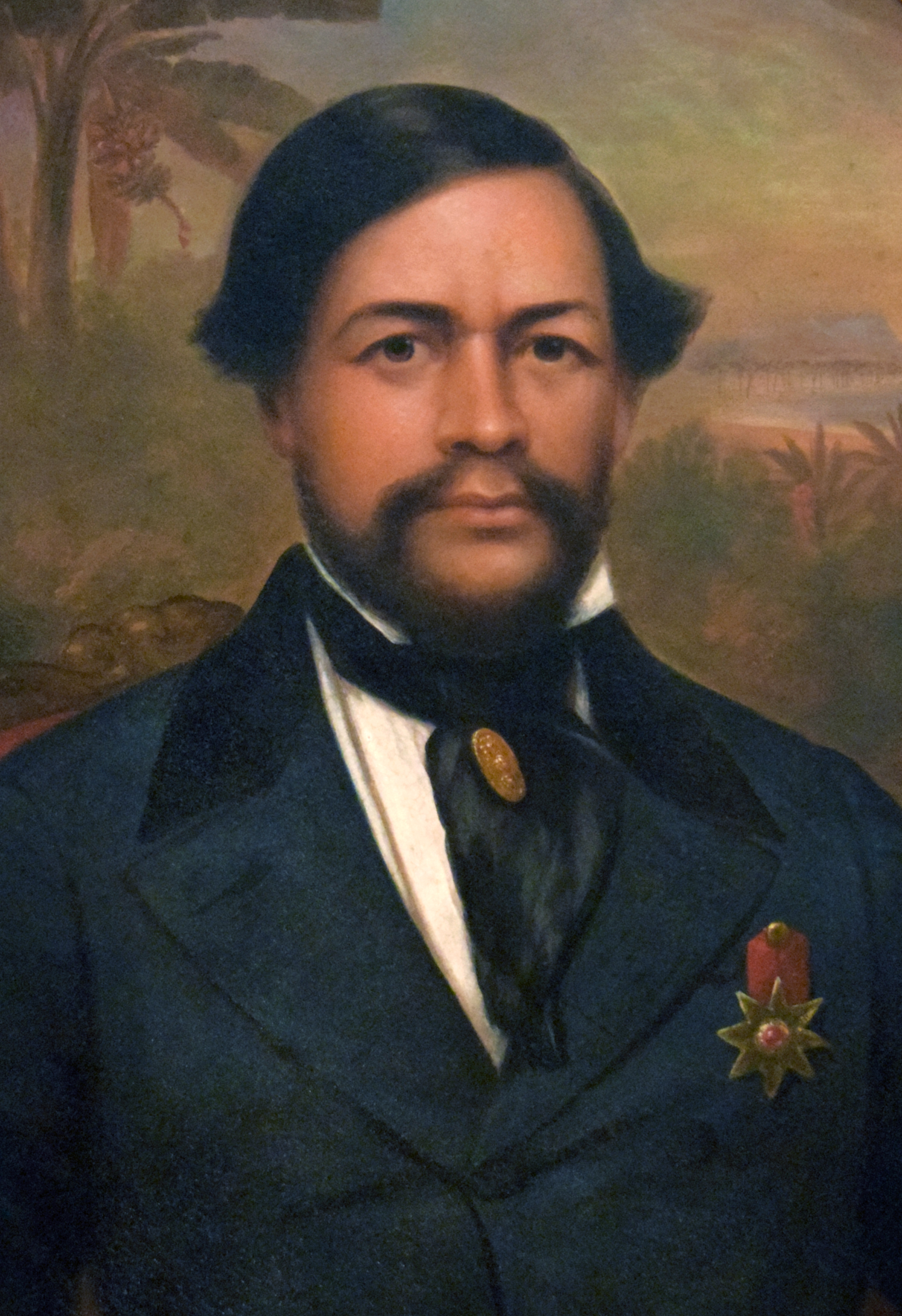 Portrait of King Kamehameha III, painted in Boston from a daguerreotype, by an unknown artist, Bishop Museum